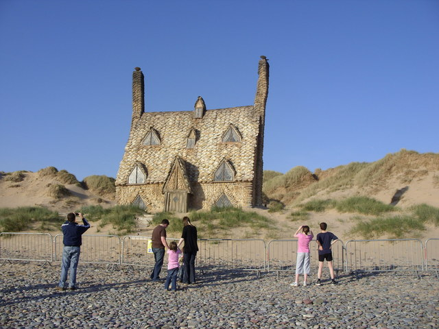 Harry Potter VII Film set at Freshwater West Shell Cottage, from the seventh Harry Potter film, at Freshwater West beach.